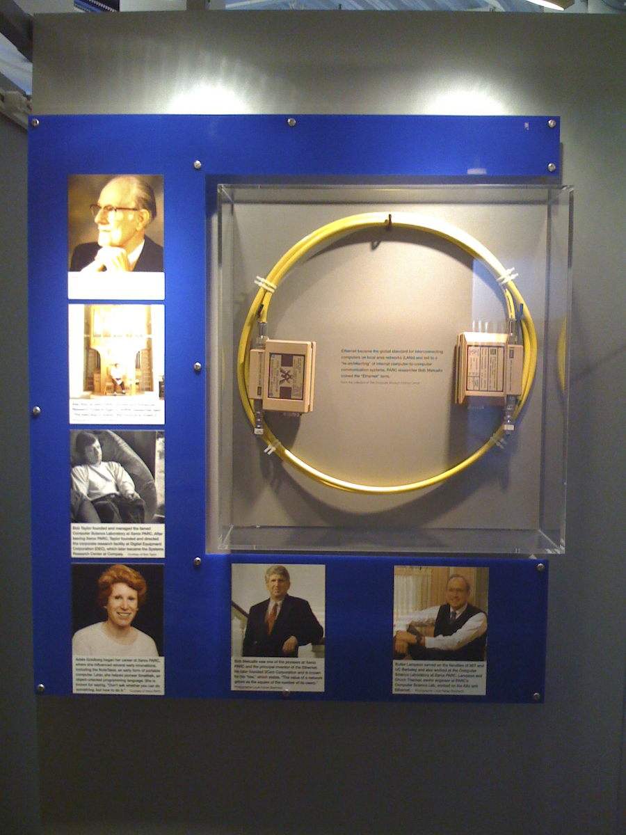 The original Xerox PARC ethernet cable, part of an exhibit at the Computer History Museum in Mountain View, California